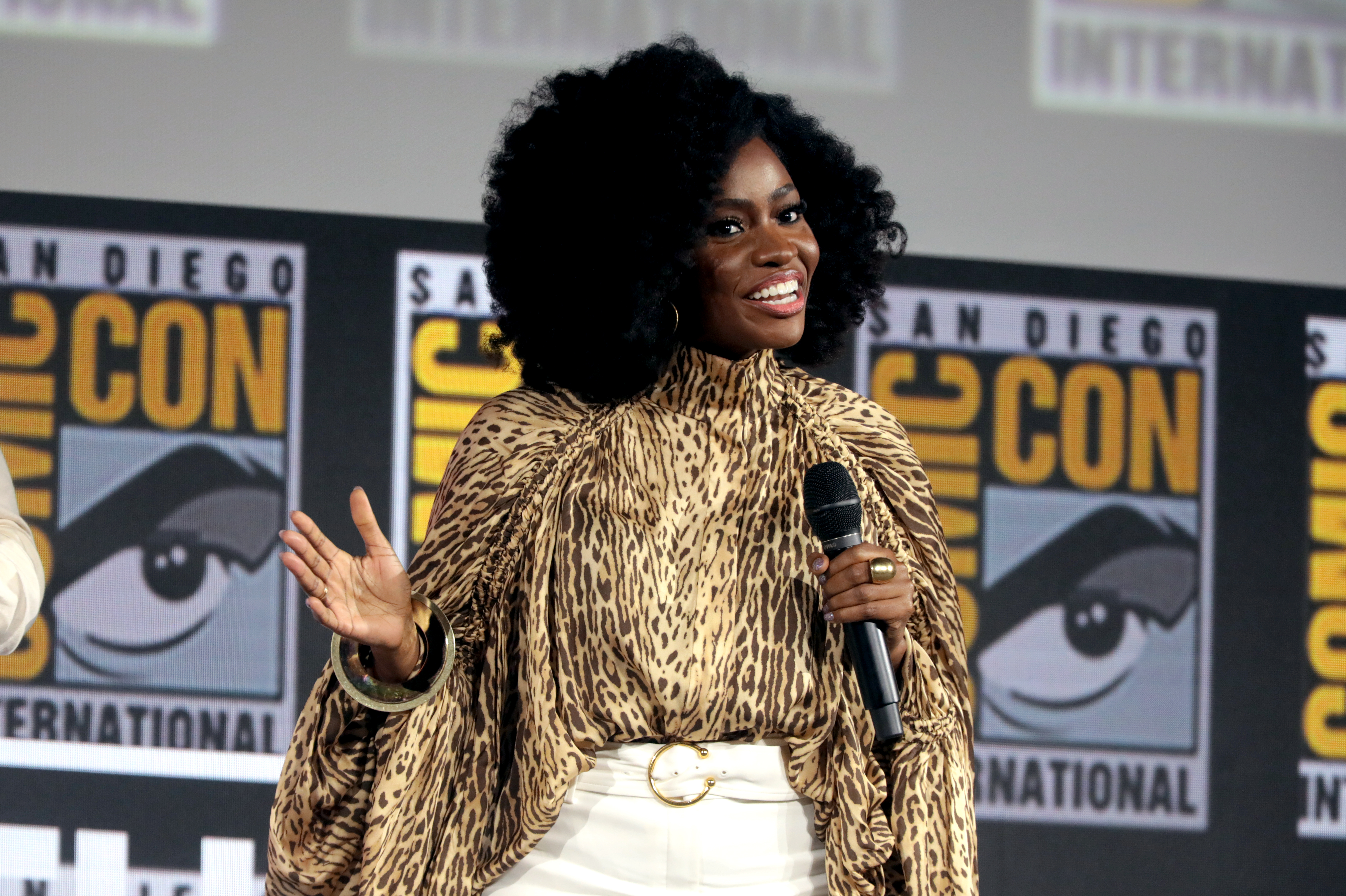 Teyonah Parris speaking at the 2019 San Diego Comic Con International, for "WandaVision", at the San Diego Convention Center in San Diego, California.